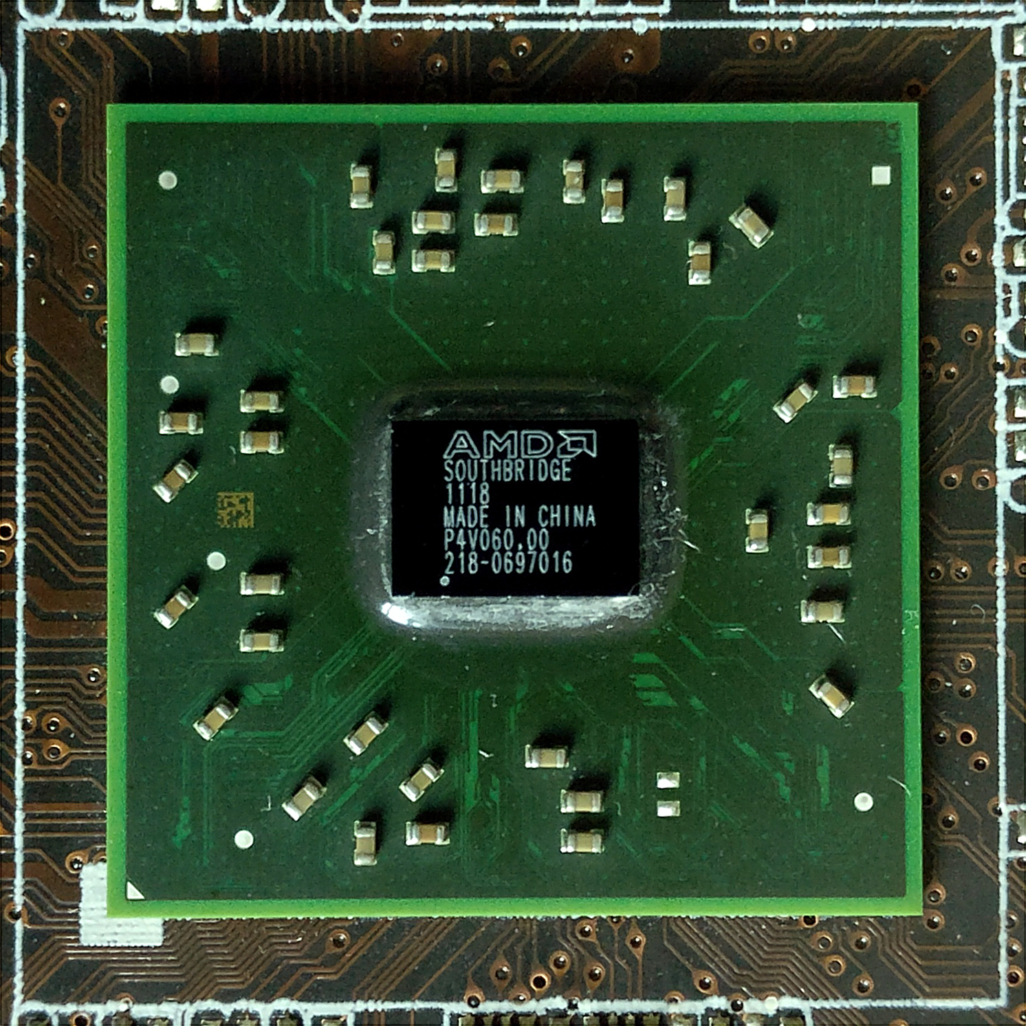 AMD Chipset - SB850 south bridge chip on an ASUS Mainboard (Model: M5A88-M).